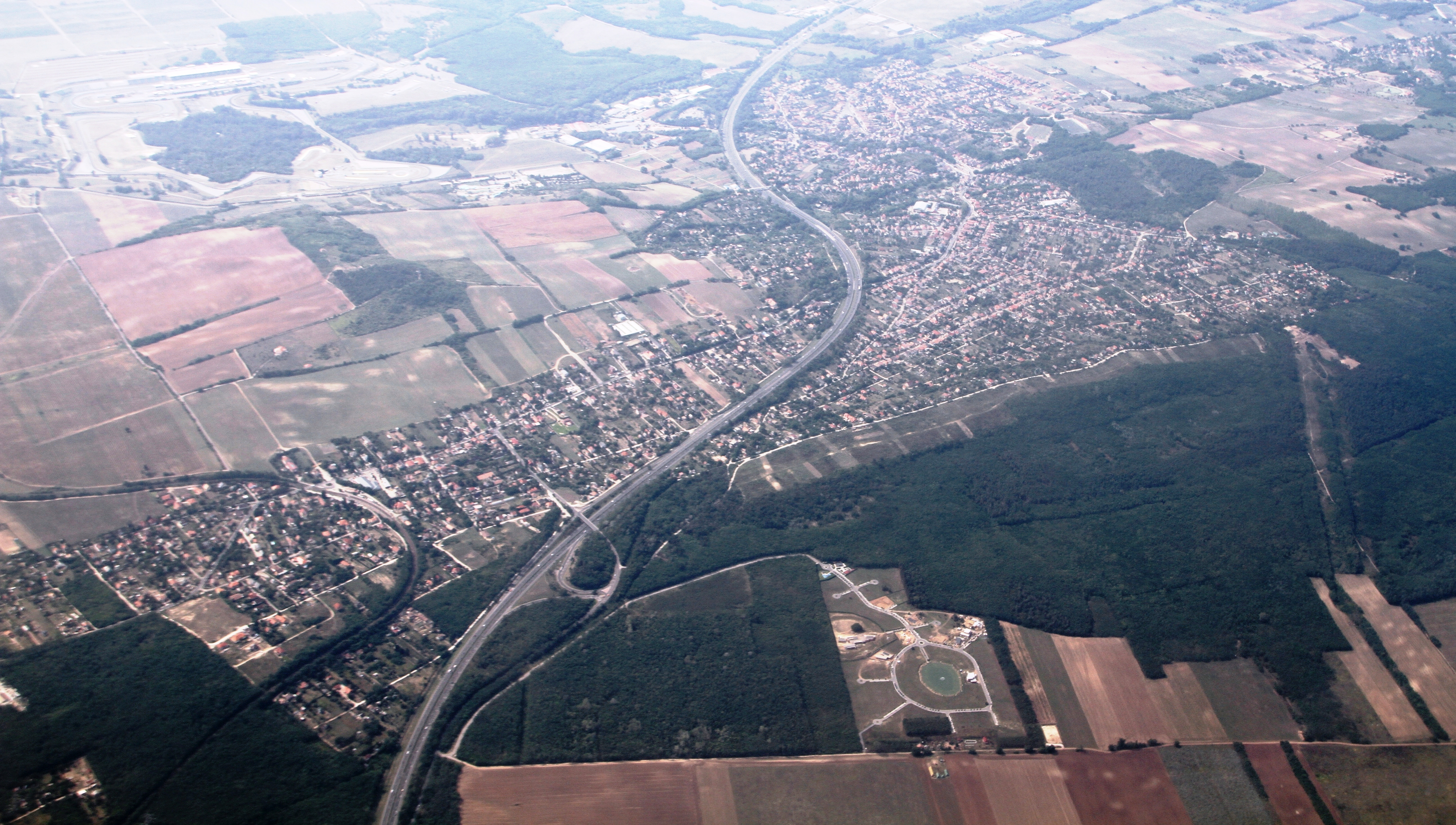 Aerial view over part of the Mogyoród town and municipality, Pest county, Hungary